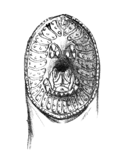 Adult Chilean Lamprey, mouth from ventral